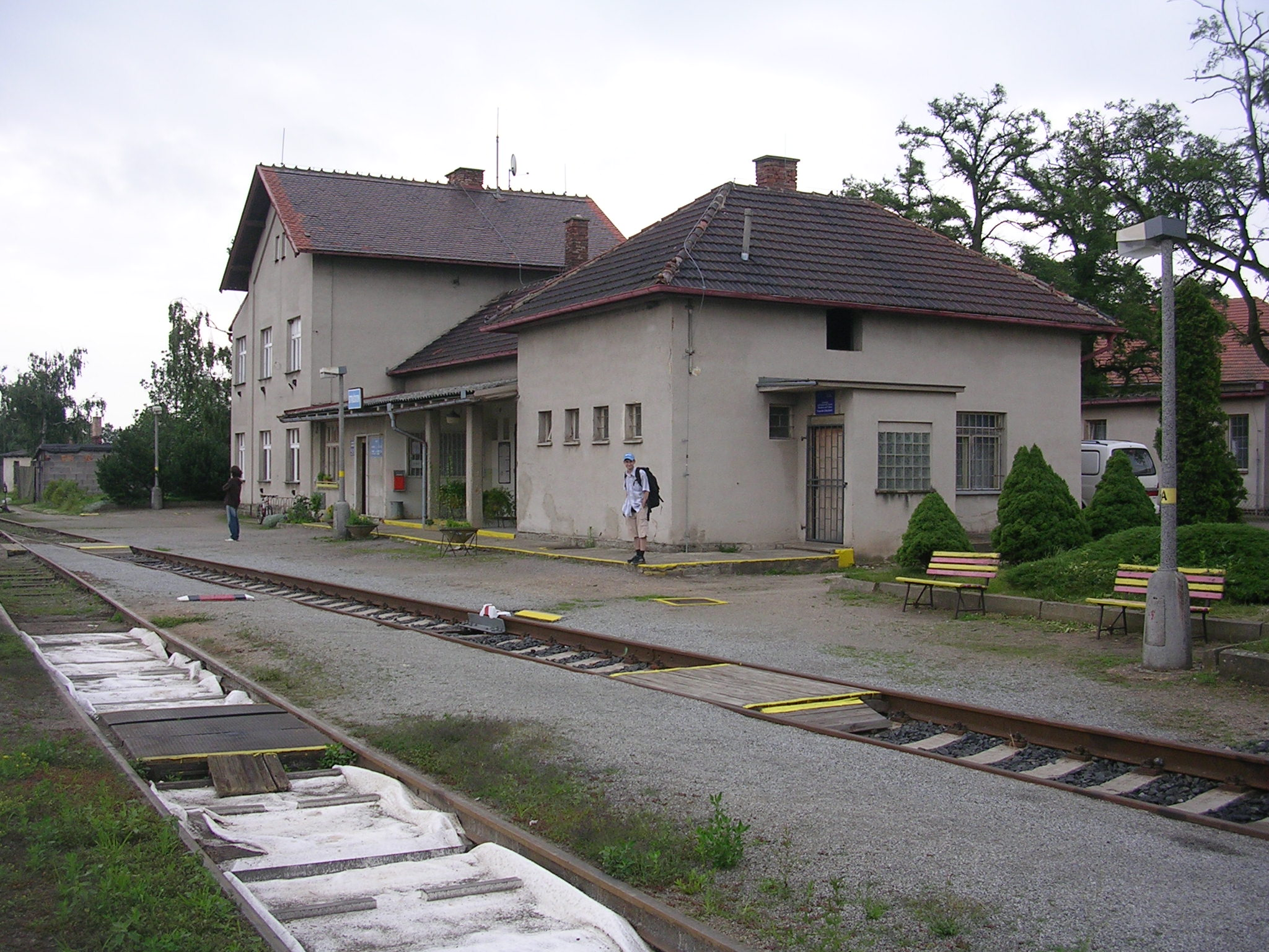 Straškov-Vodochody, Litoměřice District, Ústí nad Labem Region, the Czech Republic. A train station "Straškov".